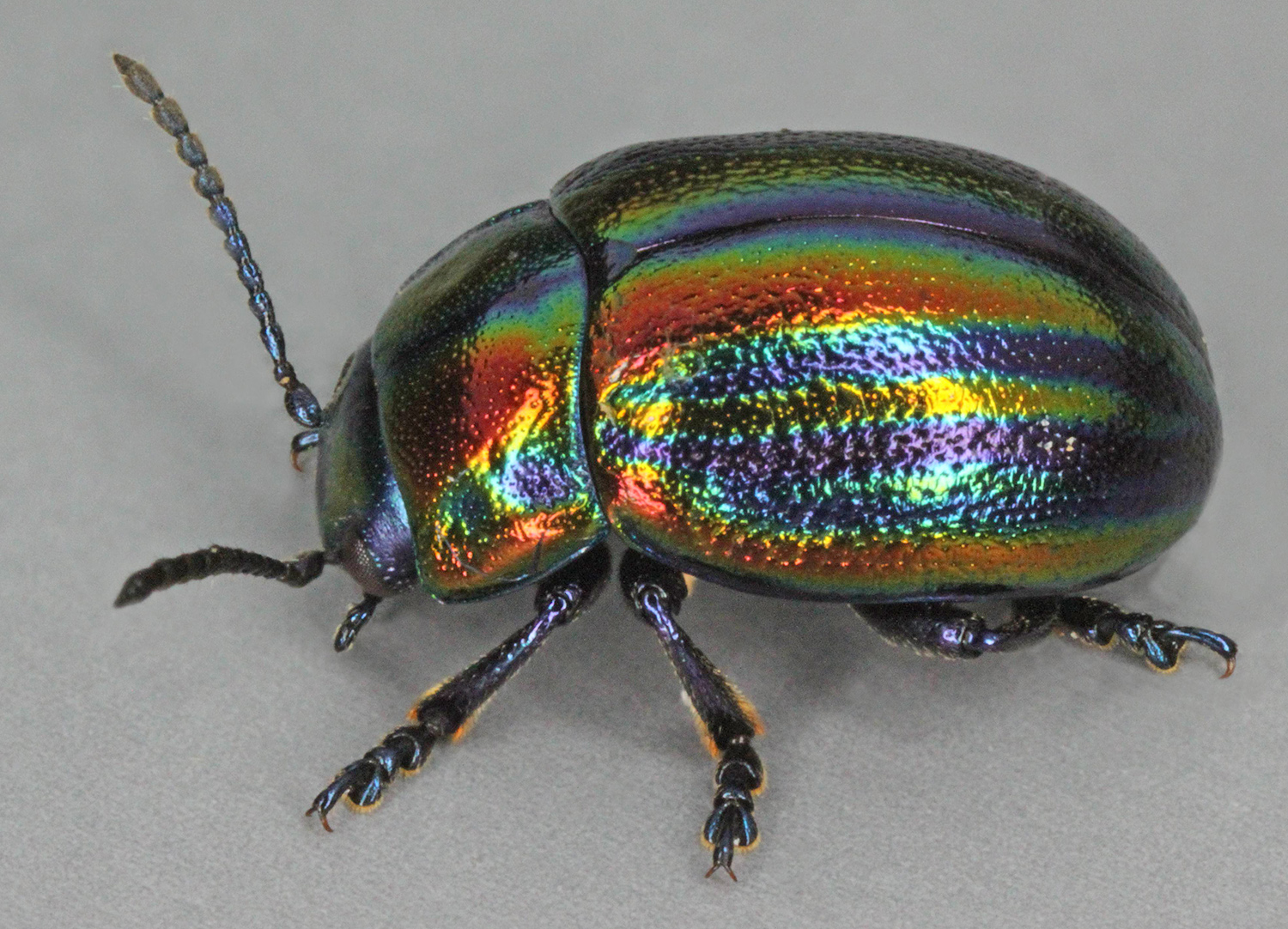 Chrysolina cerealis, Snowdon, North Wales, June 2011 2